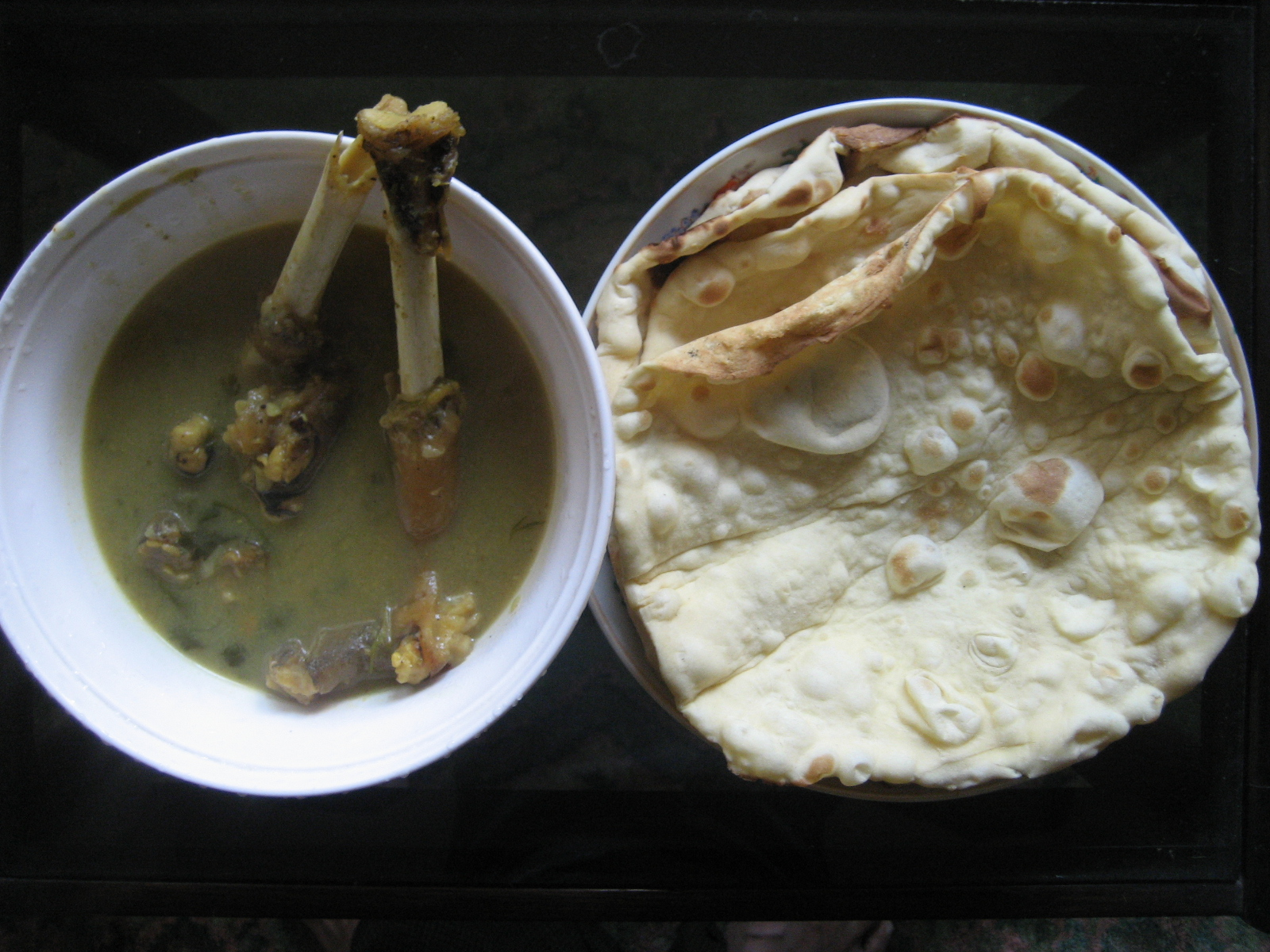 Nan bya (naan bread) with mutton soup - one of many breakfast options in Myanmar